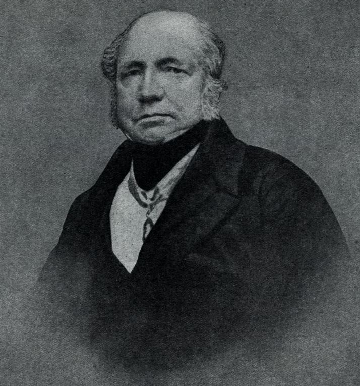 Norwegian pharmacist and professor of chemistry since 1808, Hans Henrich Maschmann (1785–1860)